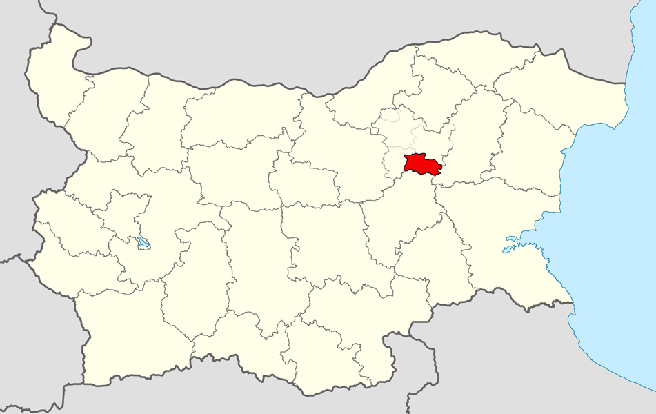 Location map of Omurtag Municipality within Targovishte Province, Bulgaria. Equirectangular projection, N/S stretching 130 %. Geographic limits of the map: N: 44.4° N S: 41.1° N W: 22.1° E E: 28.9° E